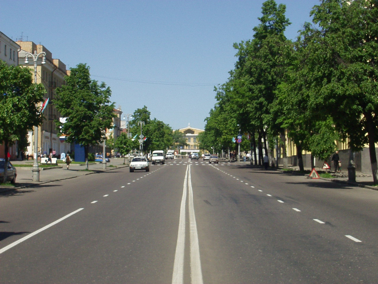 Lenin street in Kursk city, Russia